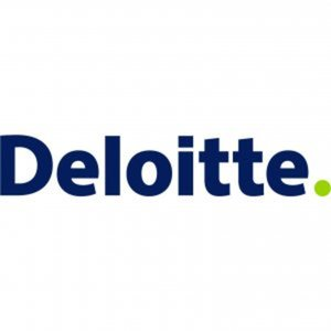 Deloitte logo